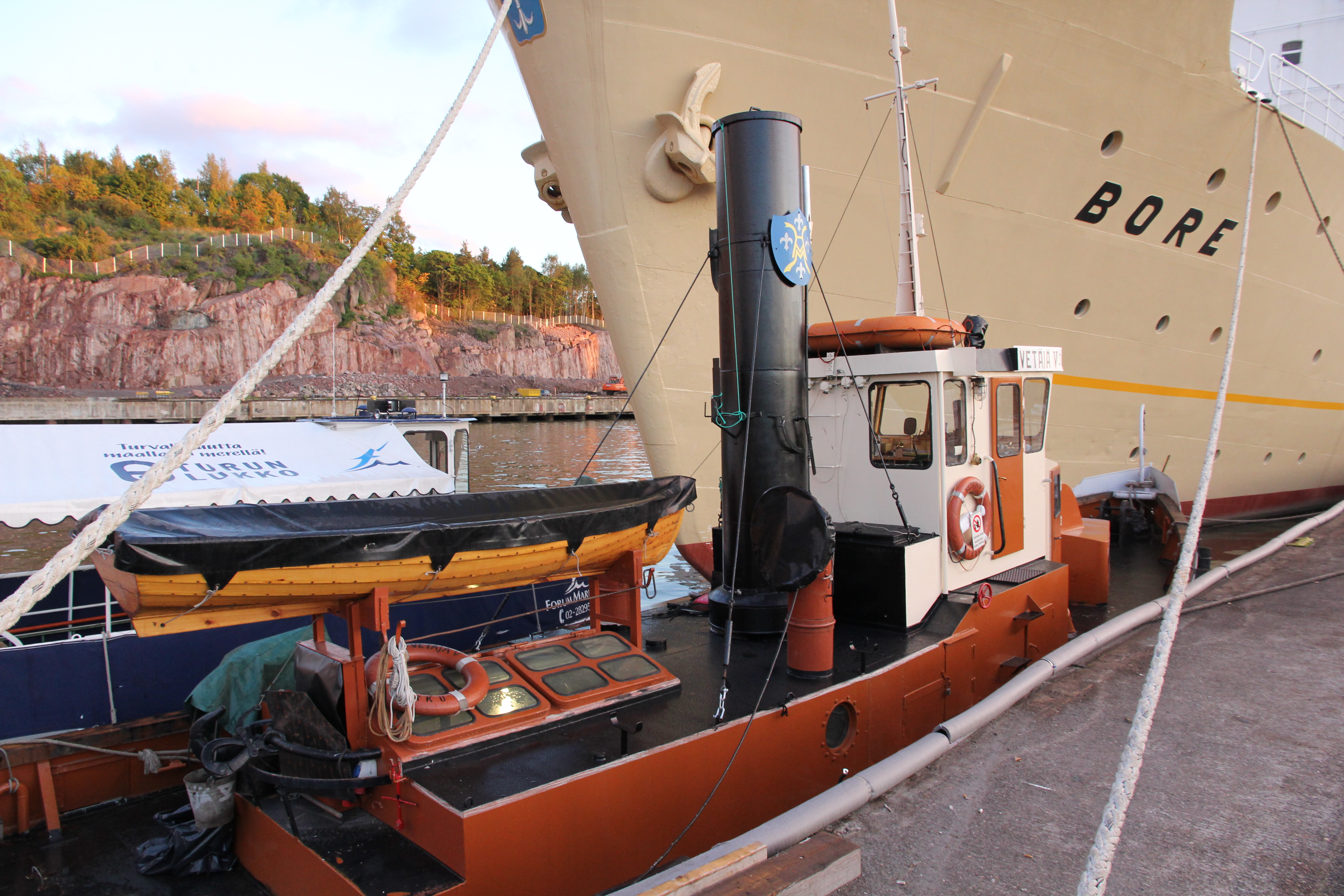 Forum Marinum museum steam tug Vetäjä V in Aura river next to Bore.